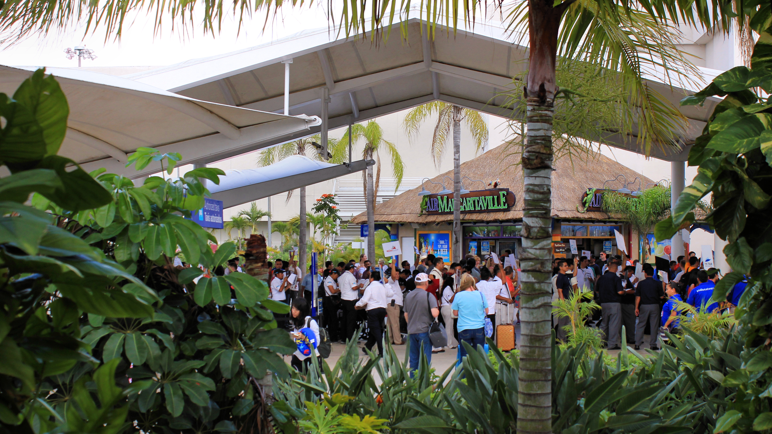 Air Margaritaville bar stand in the arrival area of Cancún International Airport.